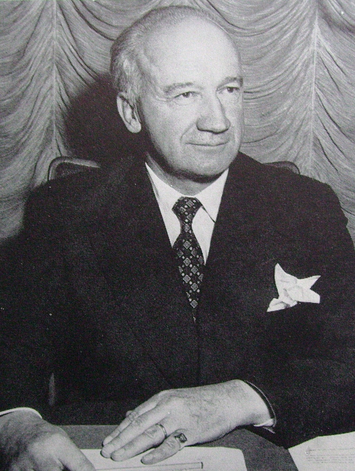 Picture of Bror Lagercrantz, Swedish politician and business man